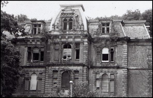 Villa Neizert, Neuwied, Germany, demolished 2002